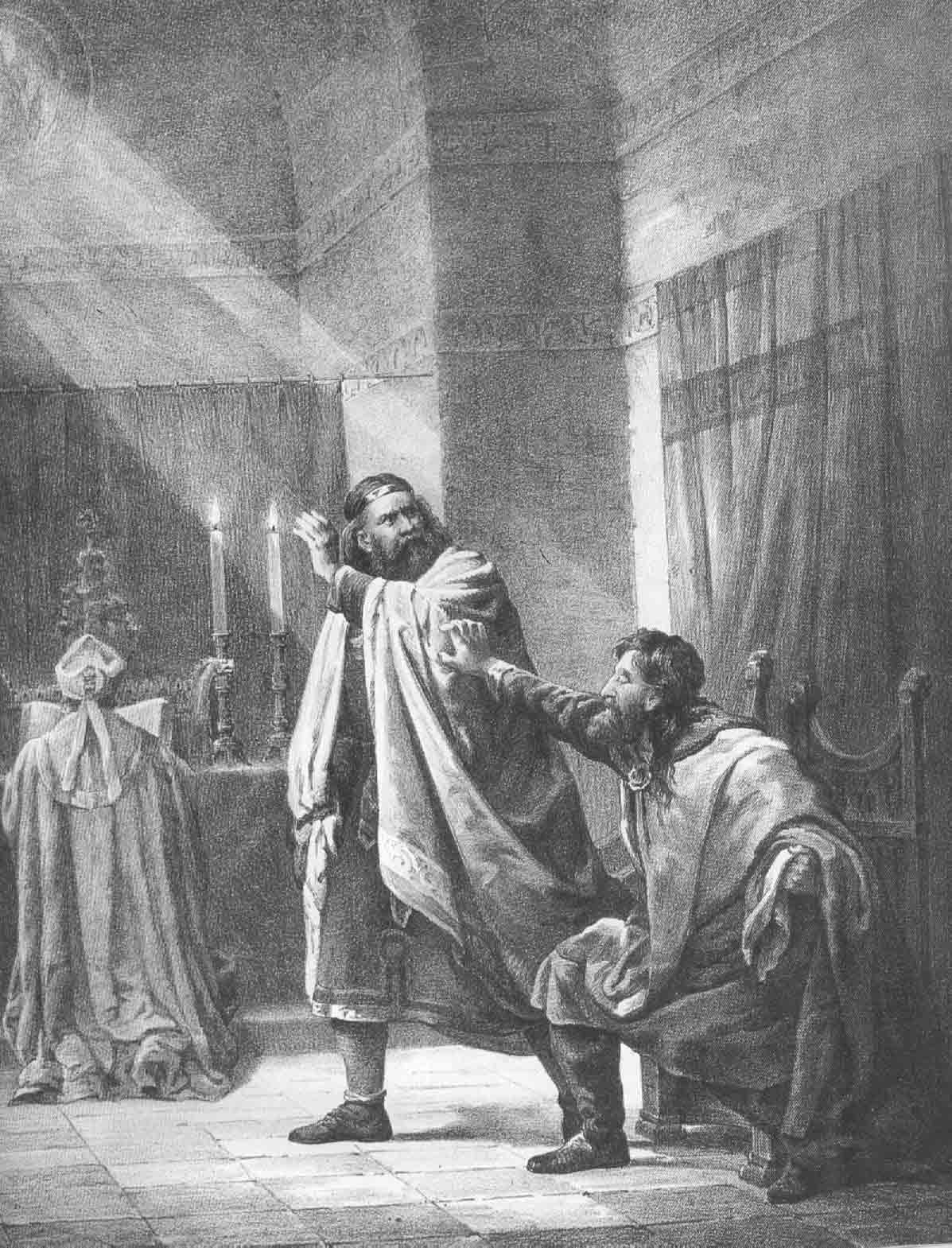 The holy Saint Olav II of Norway. Based on drawing by Peter Nicolai Arbo (Norway 1831-1892).